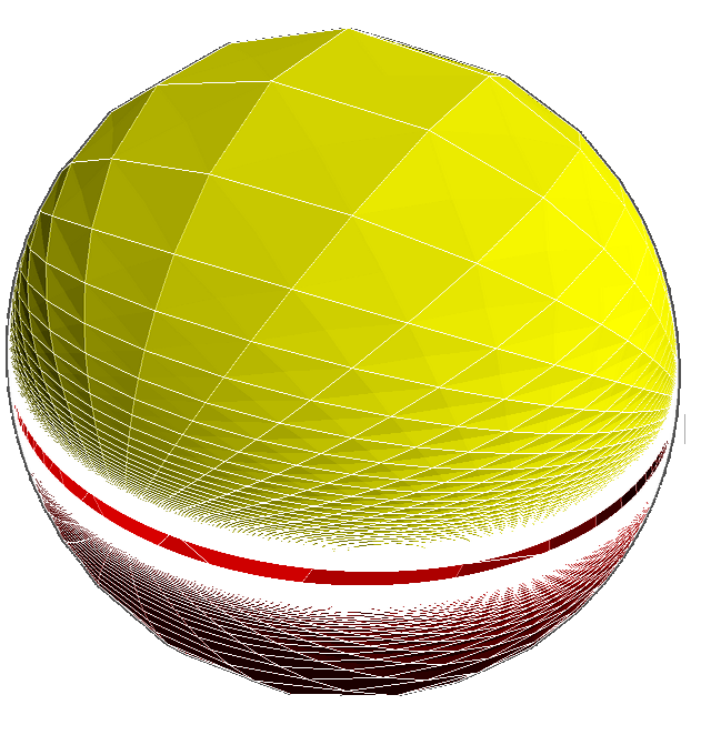 Order-4 square hosohedral honeycomb, {2,4,4 }